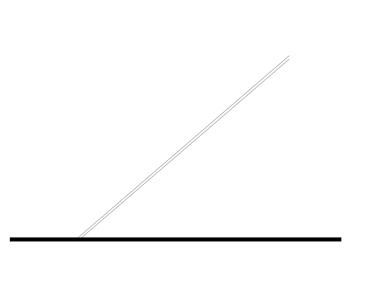 absorb pohltí